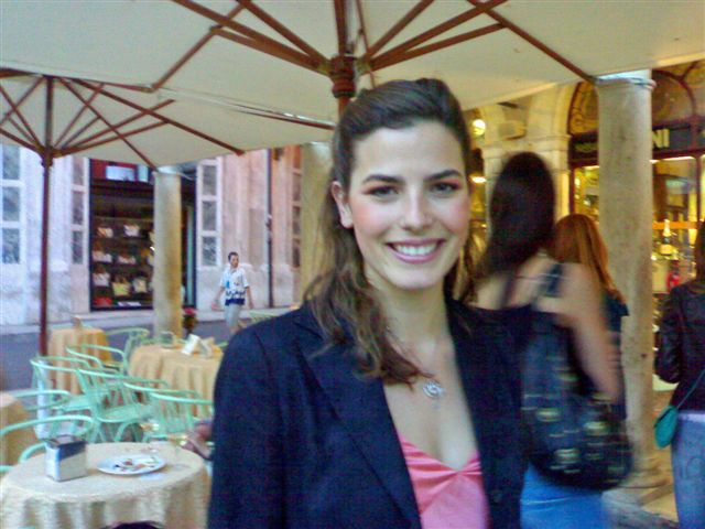 Miss Italia 2005 Edelfa Chiara Masciotta